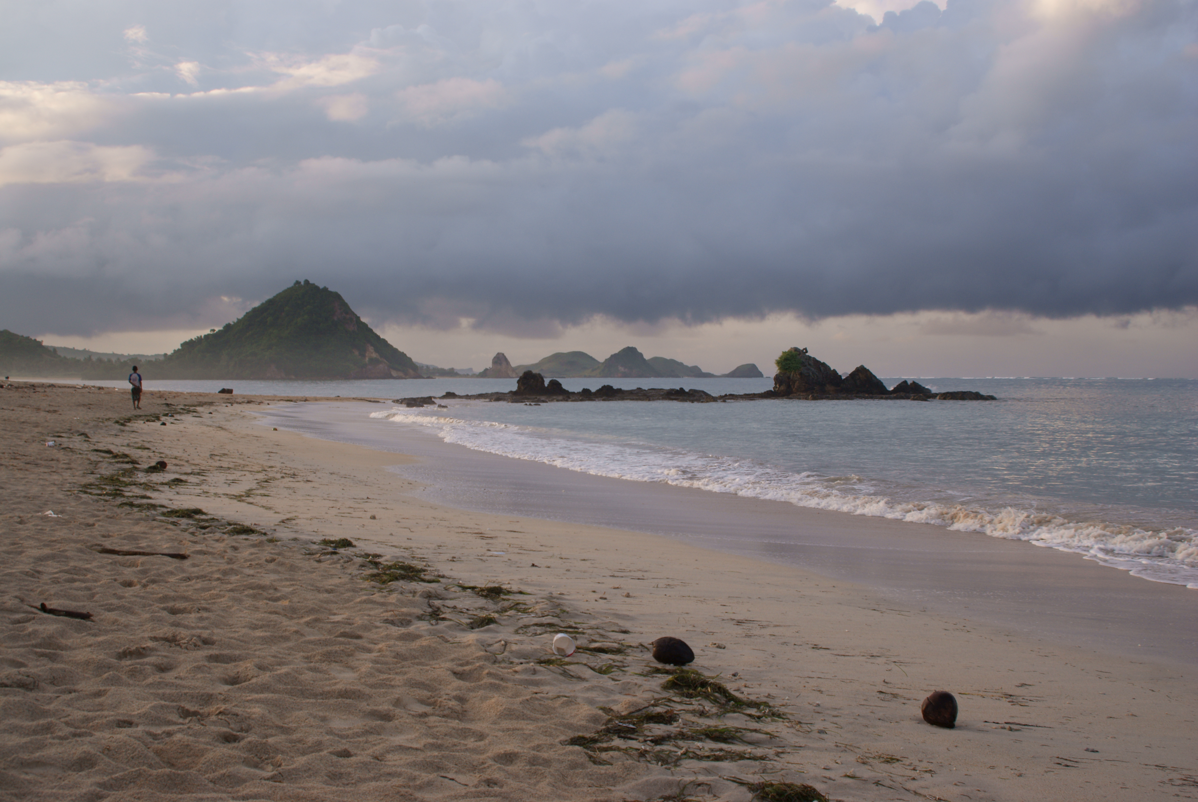 Kuta Beach, South Lombok, Indonesia